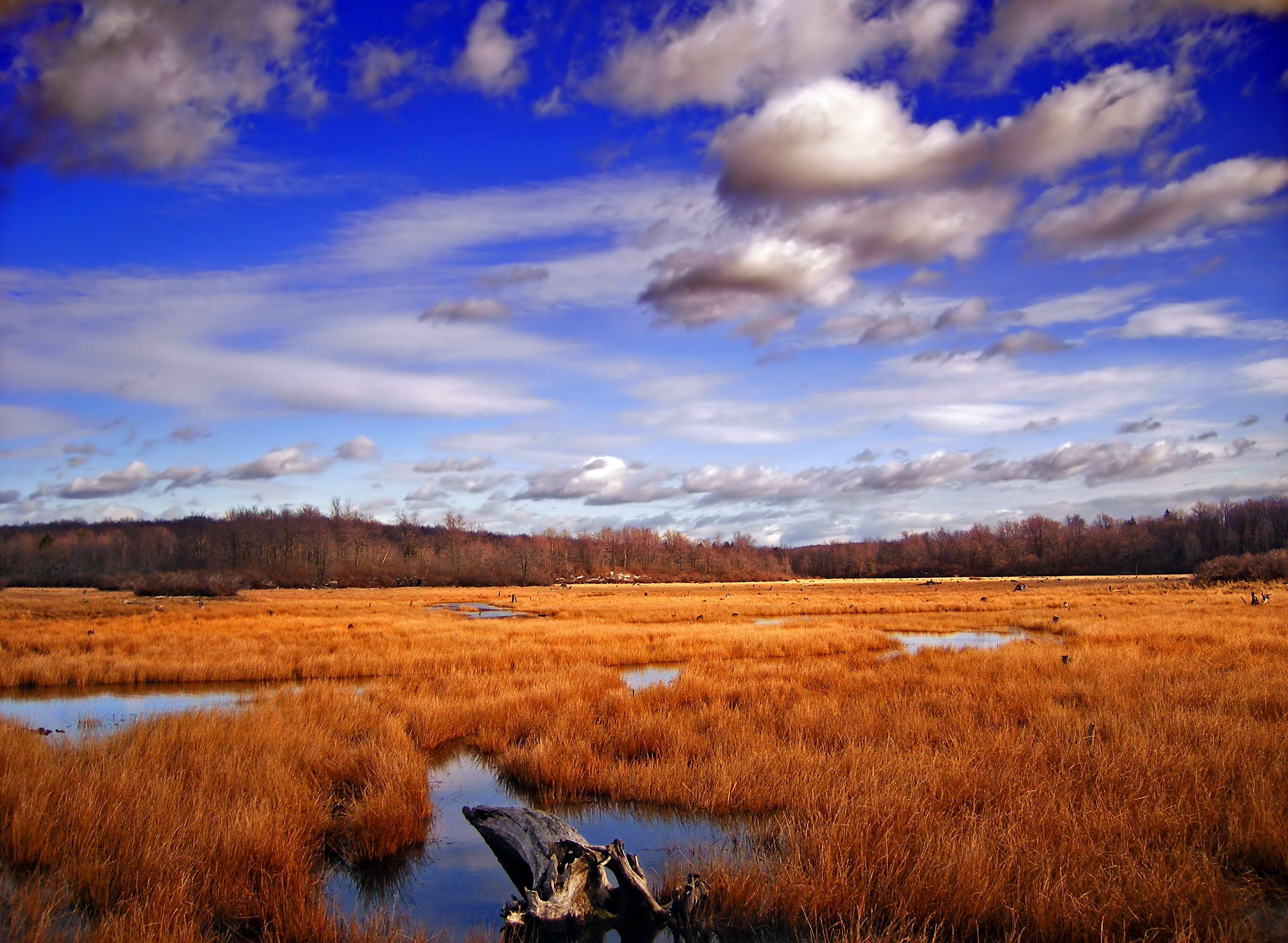 Wetland, Gouldsboro State Park, Monroe and Wayne Counties.